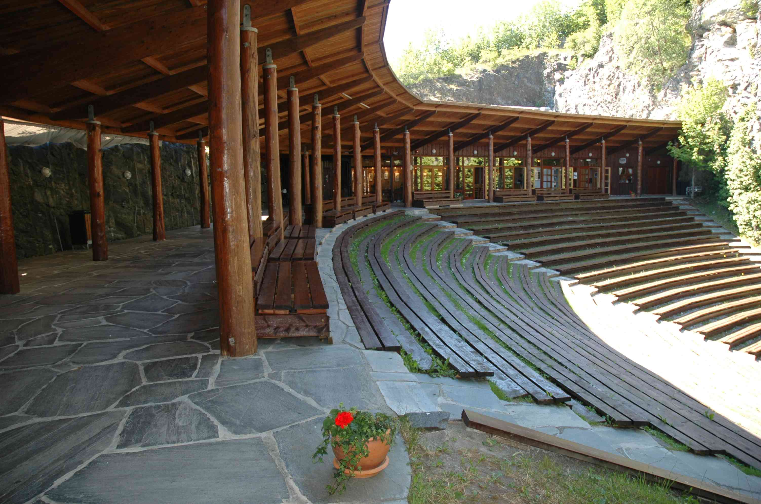 Outdoor Amfi theatre in Bømlo, Norway